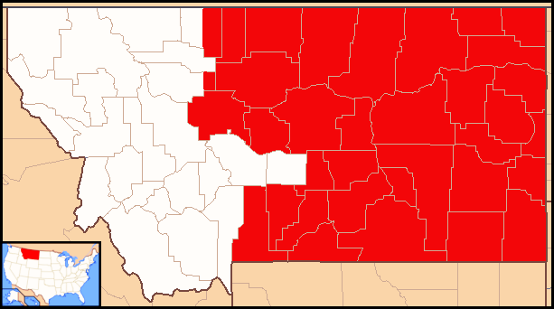 The Diocese of Great Falls-Billings in the Catholic Church encompasses the counties of eastern and central Montana, USA.